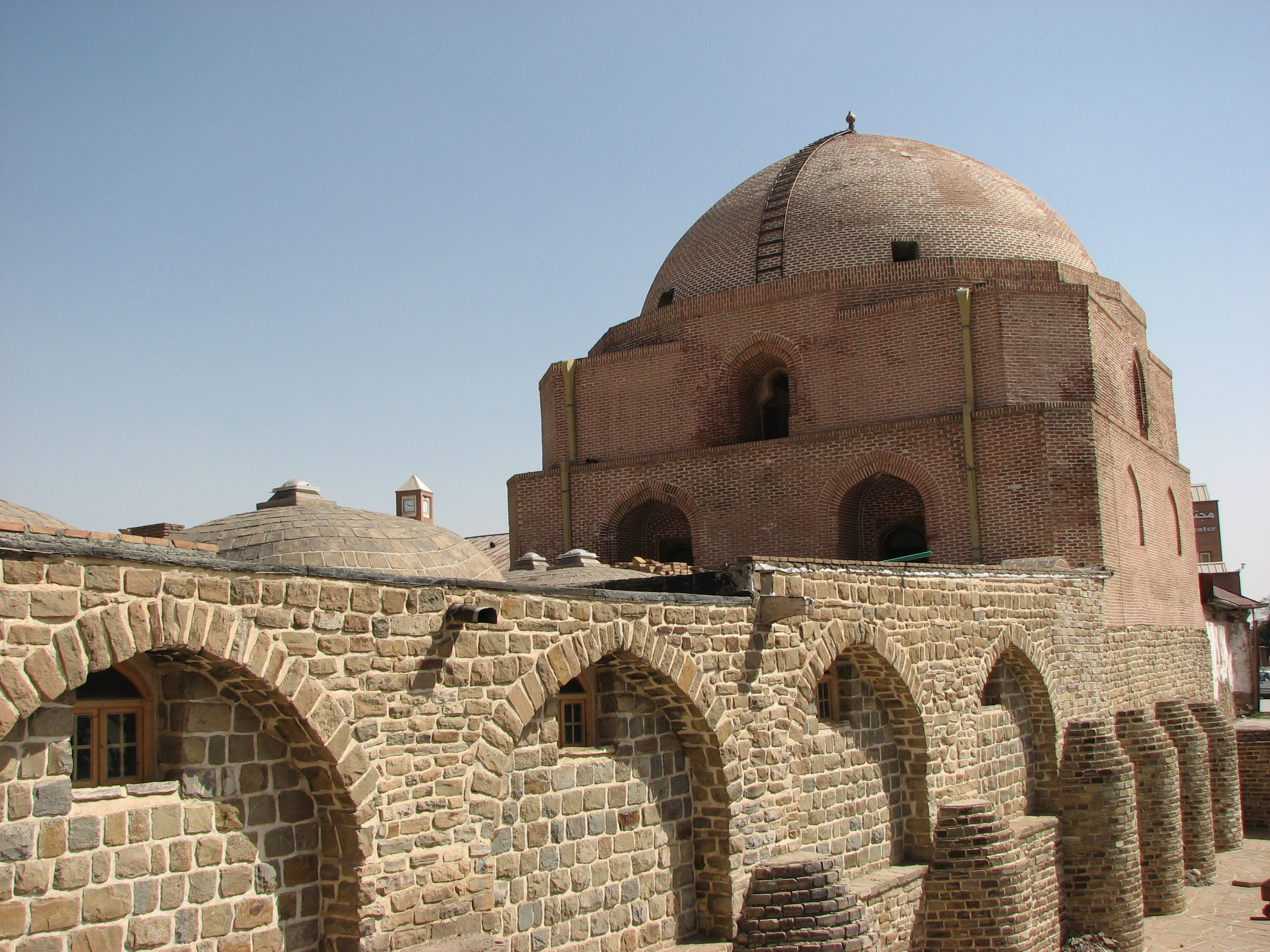 Jame Mosque of Urmia